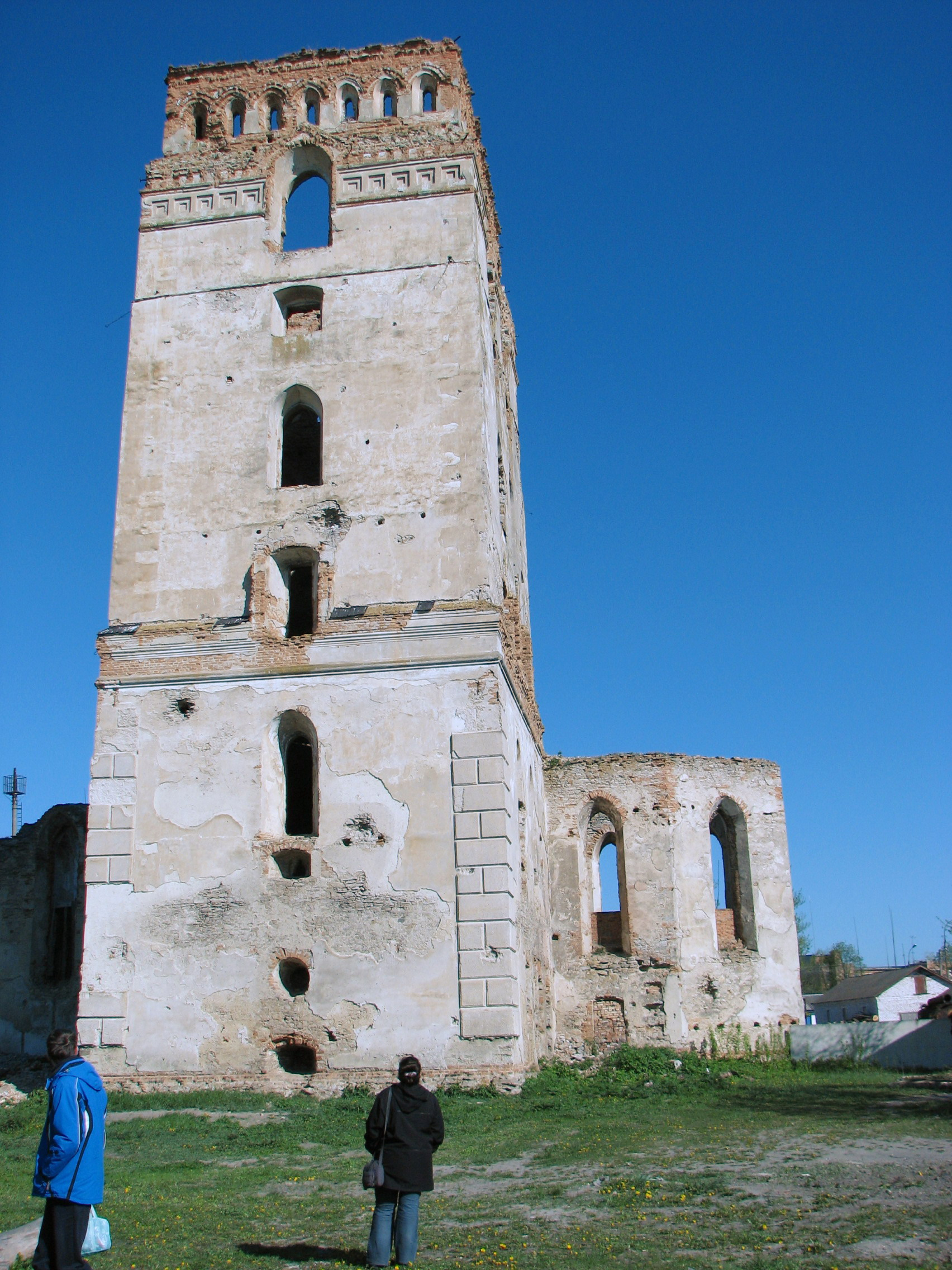 Starokostyantyniv, defense tower.